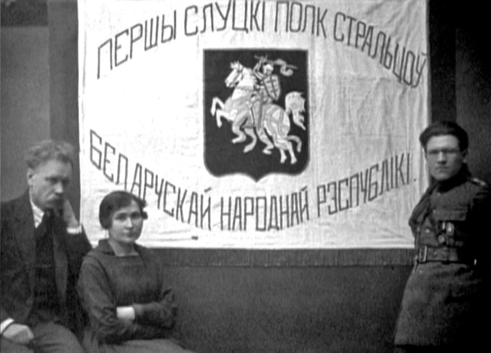 Leon Witan-Dubiejkowski (to the left) and Anton Boryk (to the right) in front of a military banner of 1st Slutsk division